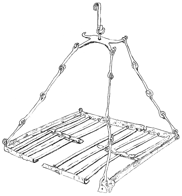 Cropped version. Fire-grid. Part of the documentation of the Swedish Viking Age Mästermyr chest. Document no. 21592:018 from the archives of the Swedish History Museum.